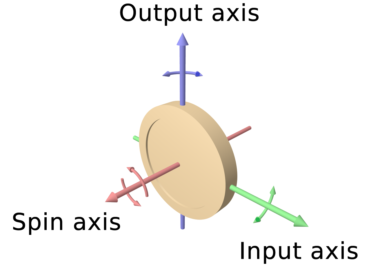 Gyroscope flywheel diagram, with text. Rendered using POV-Ray.